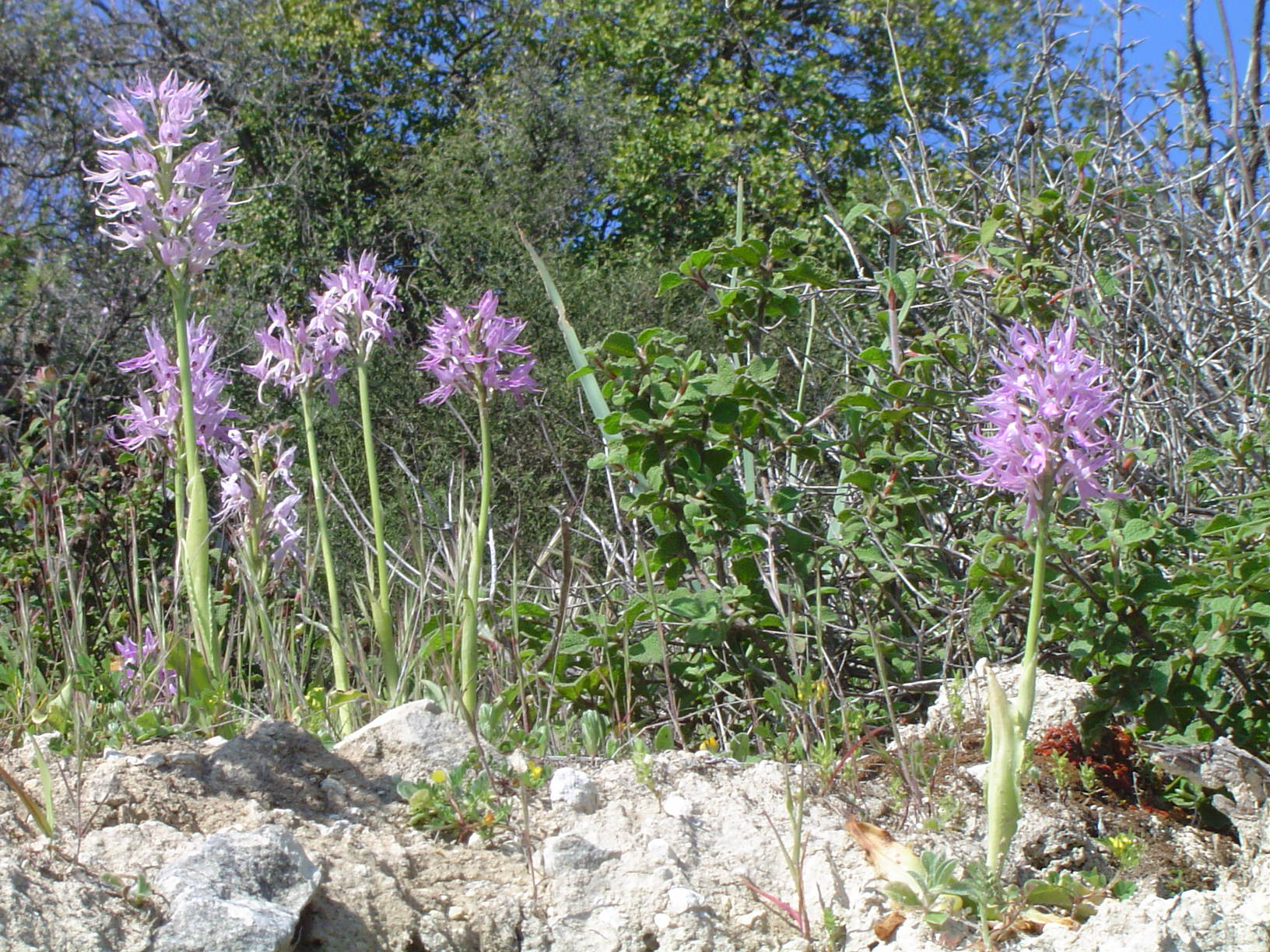 Orchis italica near Kritou Terra, Cyprus, 2004